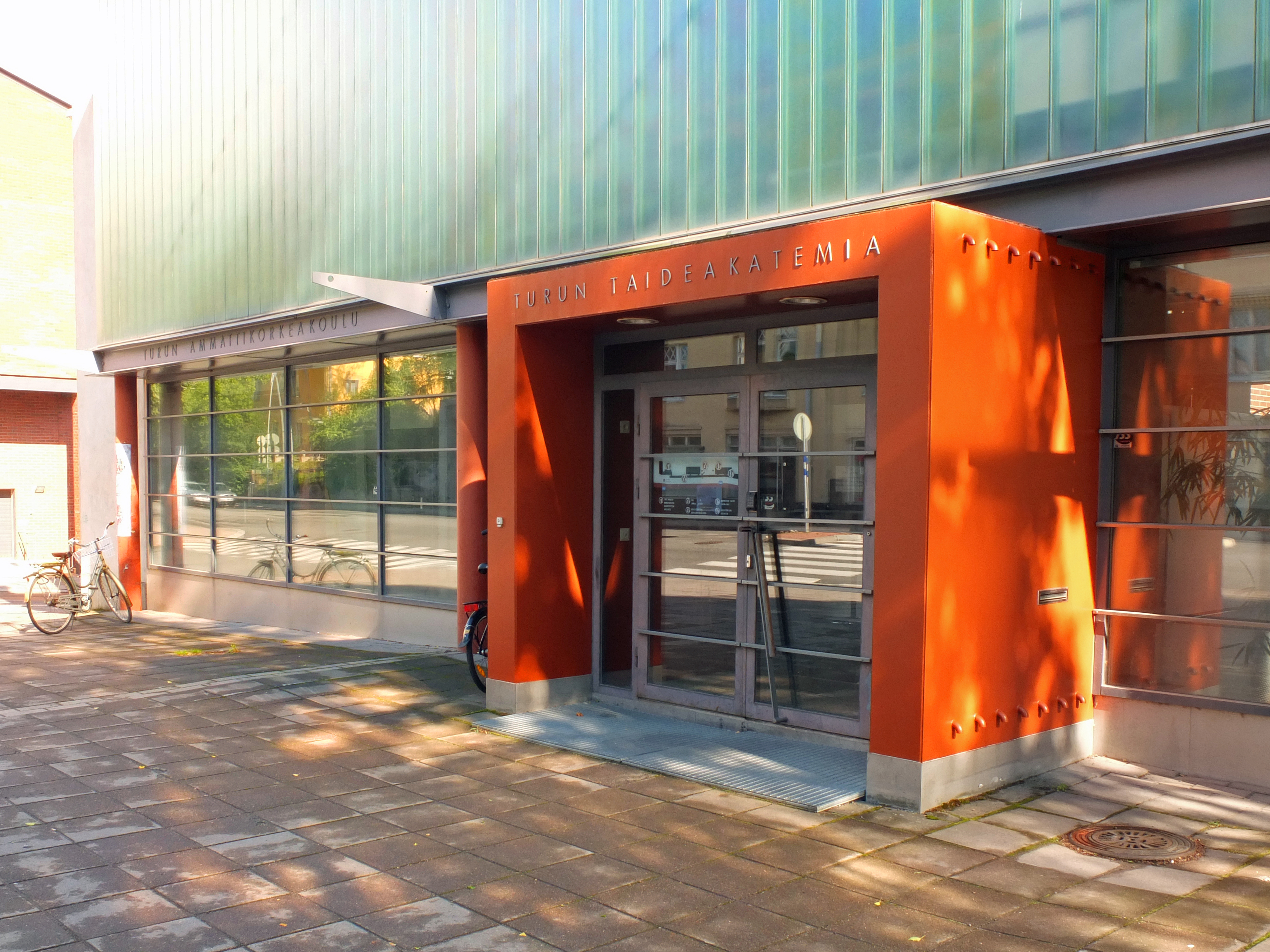 Main entrance to the Arts Academy at the Turku University of Applied Sciences (Turun ammattikorkeakoulun taideakatemia), Linnankatu, Turku, Finland